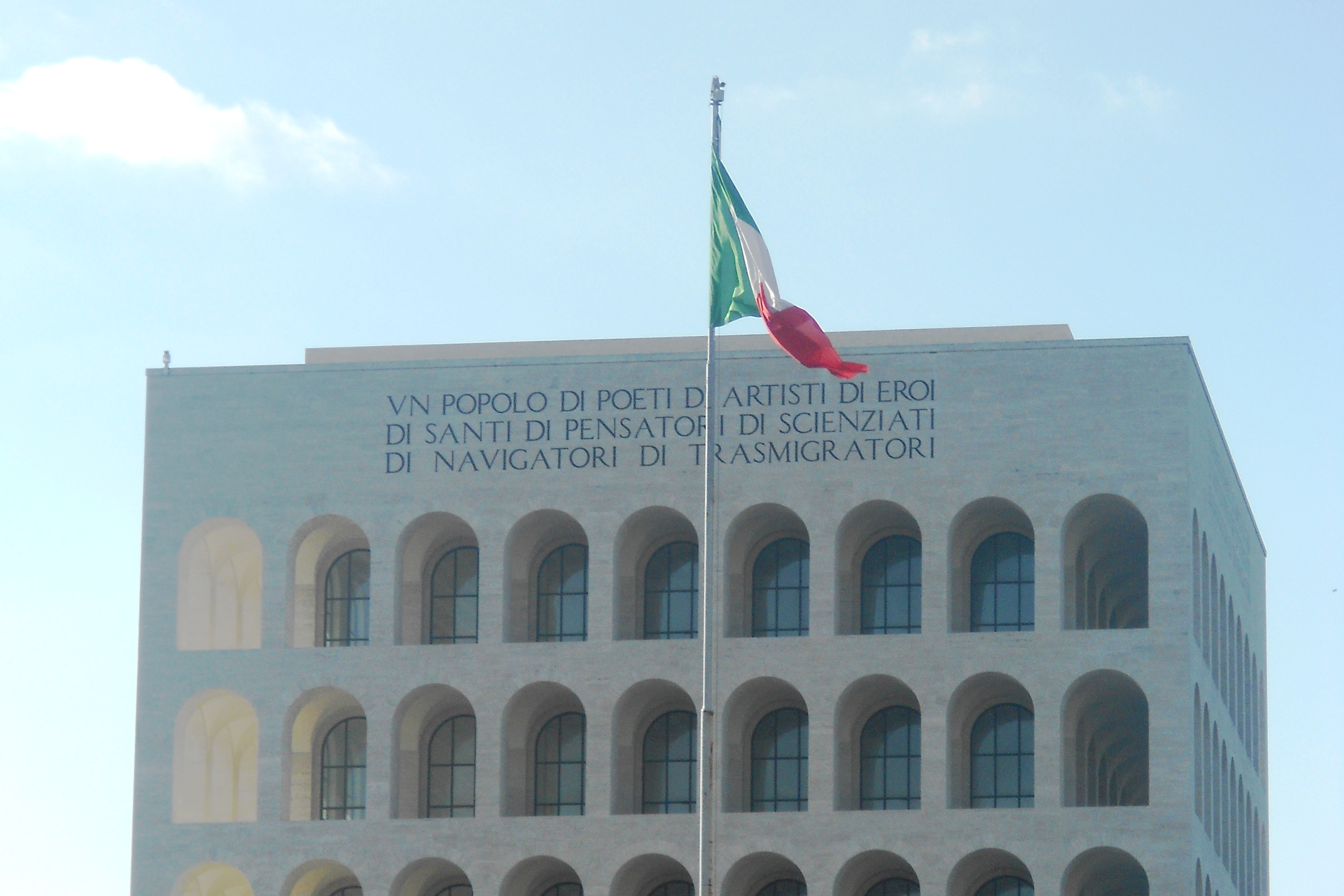 Inscription on the top of the facade of the Italian Civilization Palace (or Palace of Civilization of Work) in the EUR district of Rome (Italy) It means: «A nation of poets, artists, heroes, saints, thinkers, scientists, sailors, emigrants». This inscription refers to the Italian people.